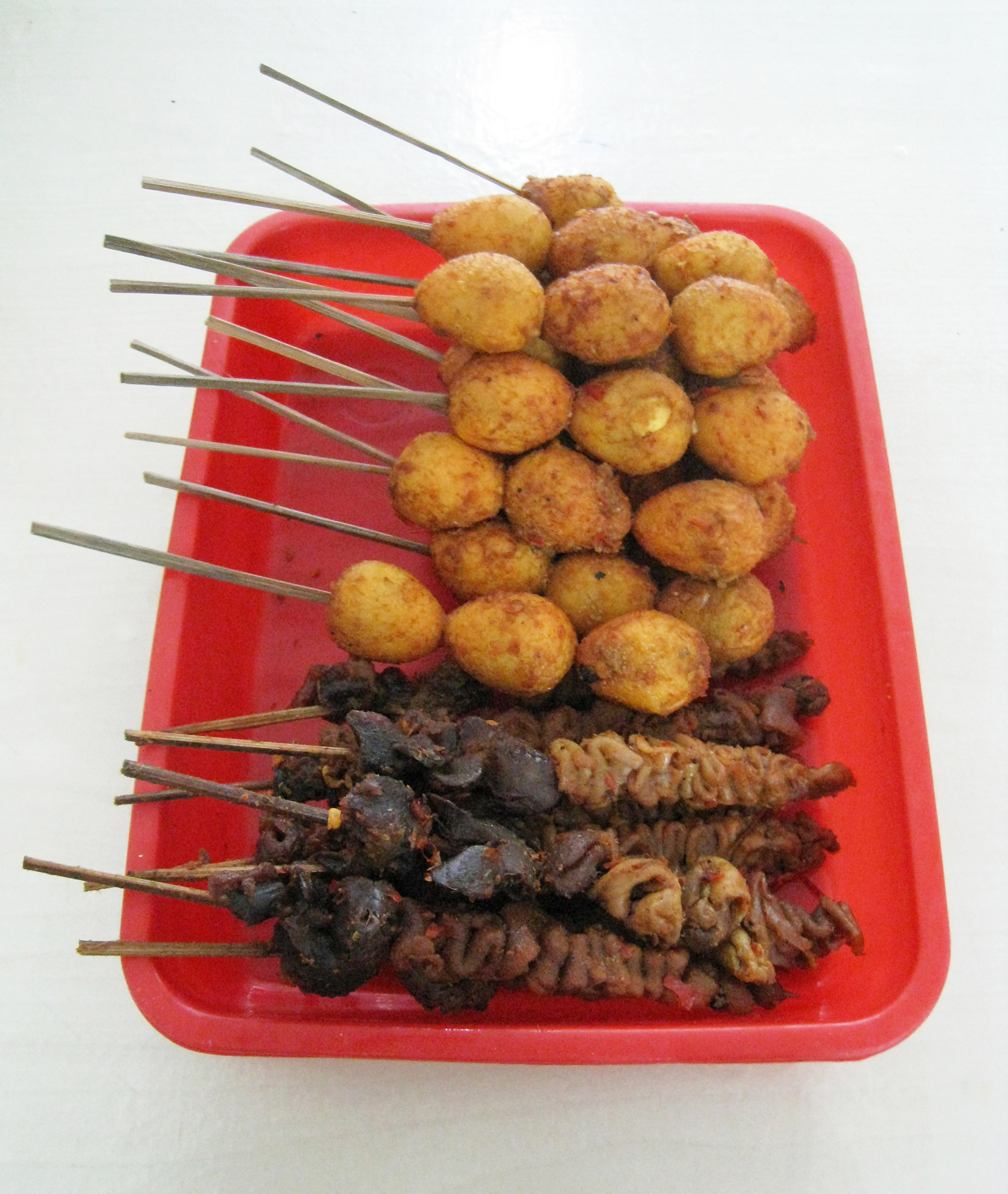 The quail eggs satay and the chicken liver and intestine satay. Usually served to accompany "Bubur Ayam" (Chicken congee). Jakarta, Indonesia.